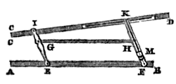 The Centrolinead, a draughtsman's instrument invented by British engineer, architect and mathematician, Peter Nicholson (1765–1844)